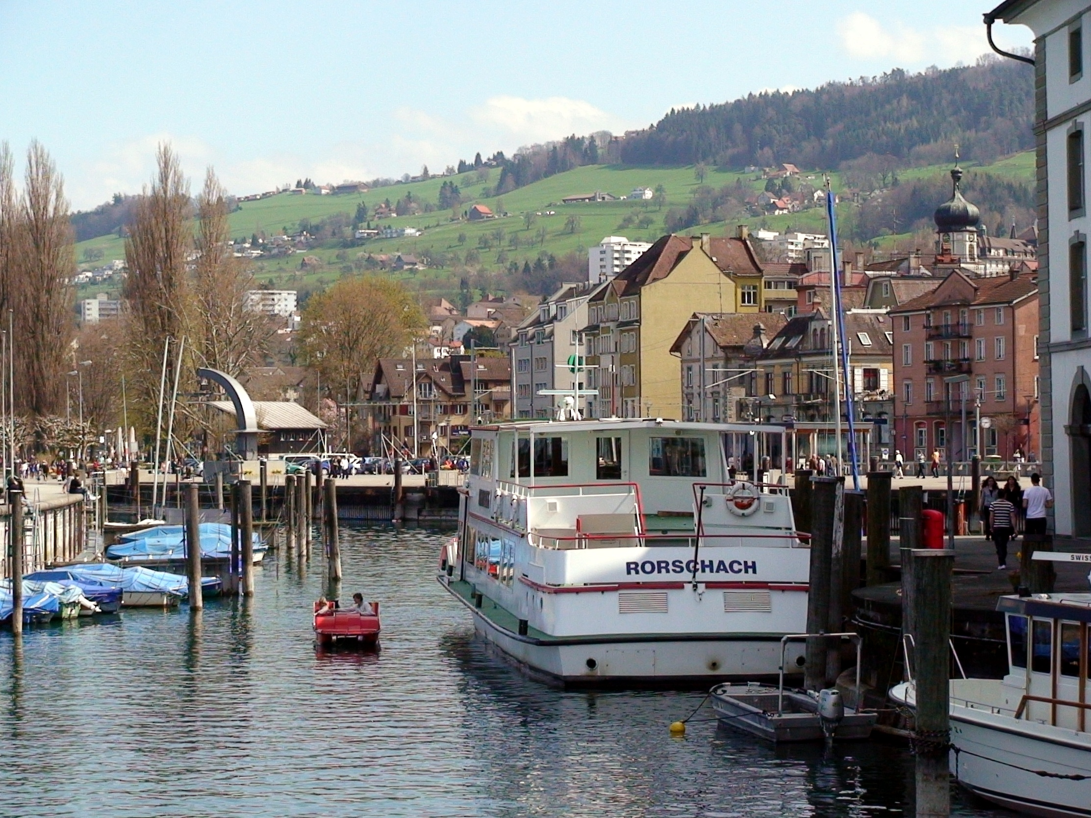 Harbor of Rorschach on Lake Constance with ship (MS Rhynegg).